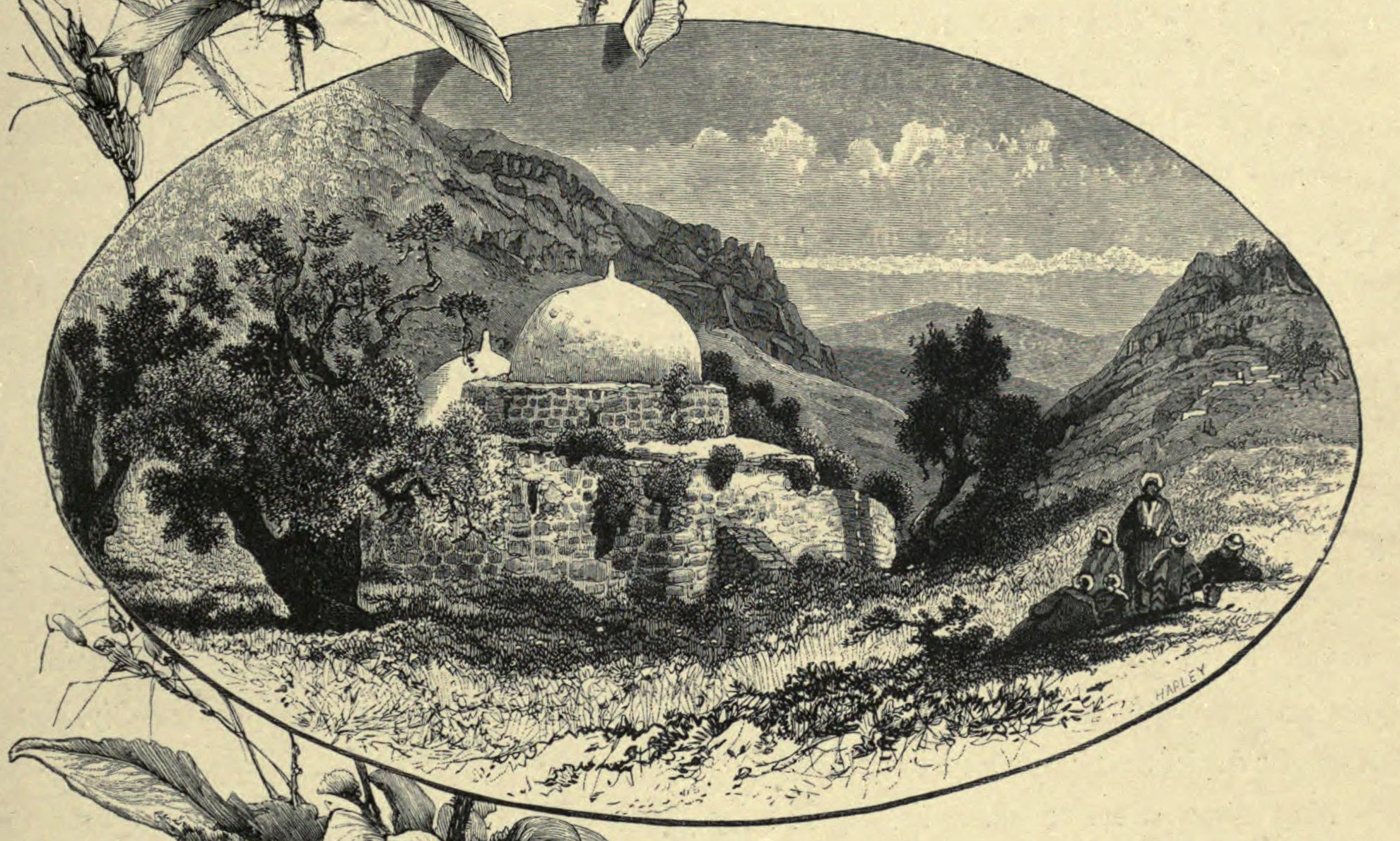 Maqam in Samaria (Wilson, 1881)